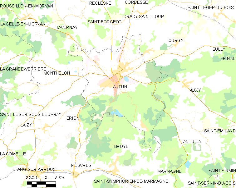 Map of French municipality